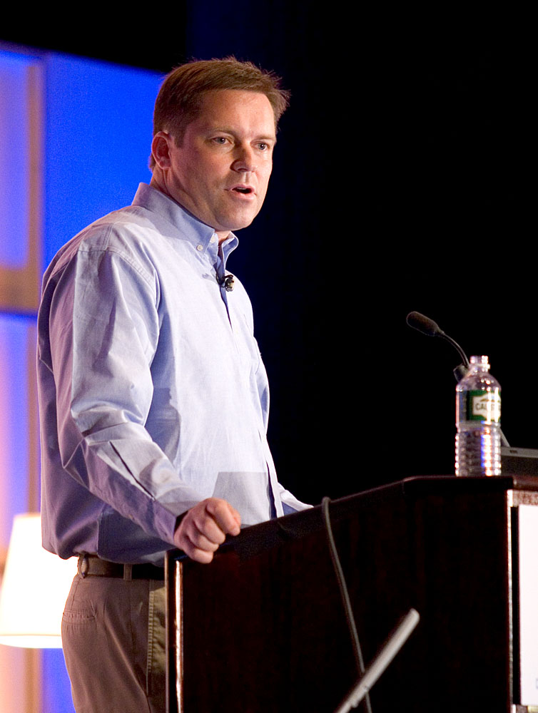 Marten Mickos at the MySQL Users Conference 2005.